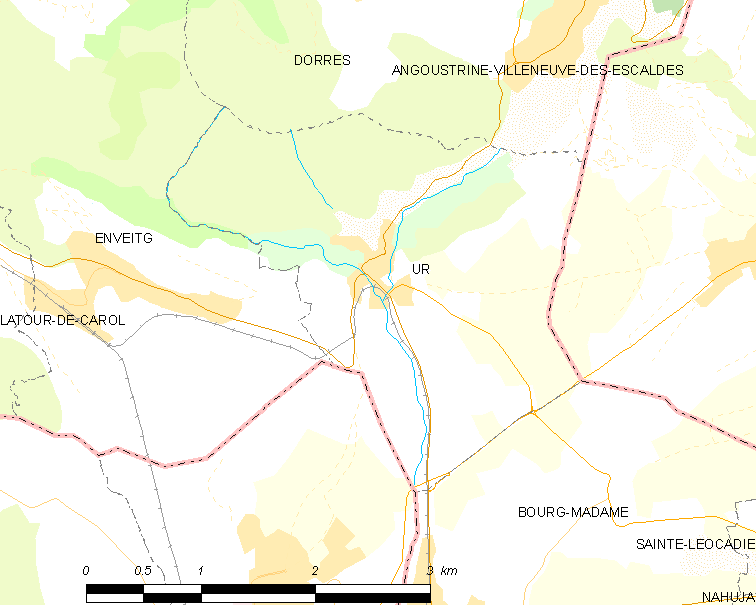 Map of French municipality